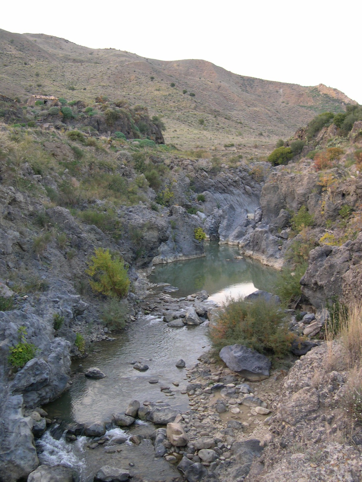 Simeto river in Sicily, near Saraceni bridge